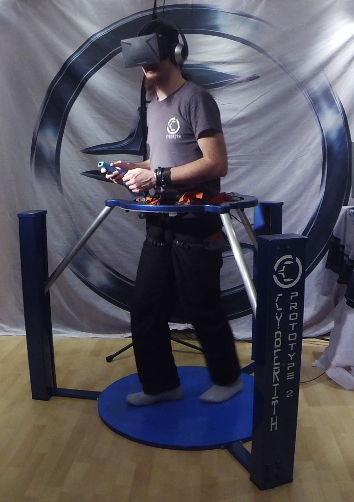 The Prototype 2 of Cyberith Virtualizer in use. The user is Tuncay Cakmak, the inventor of the device.